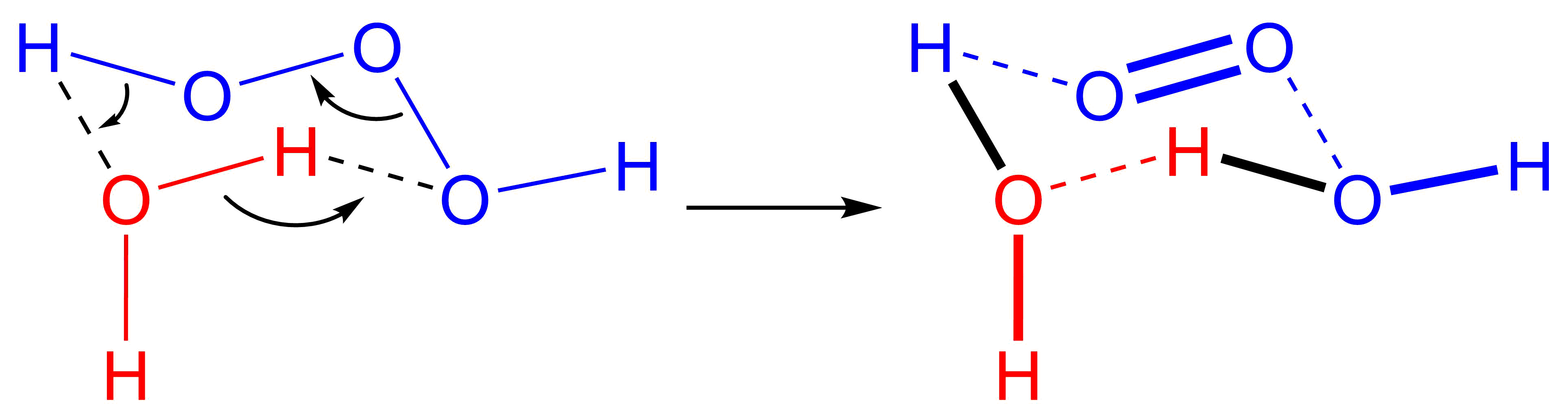 retro-[2+2+2] reaction of hydrogen trioxide decomposition